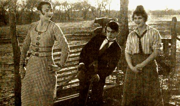 Still from the American comedy film The Tenderfoot (1919) with Nilde Baracchi (as Nilde Babette), Marcel Perez, and Edna Holland, on page 571 of the April 26, 1919 Moving Picture World.